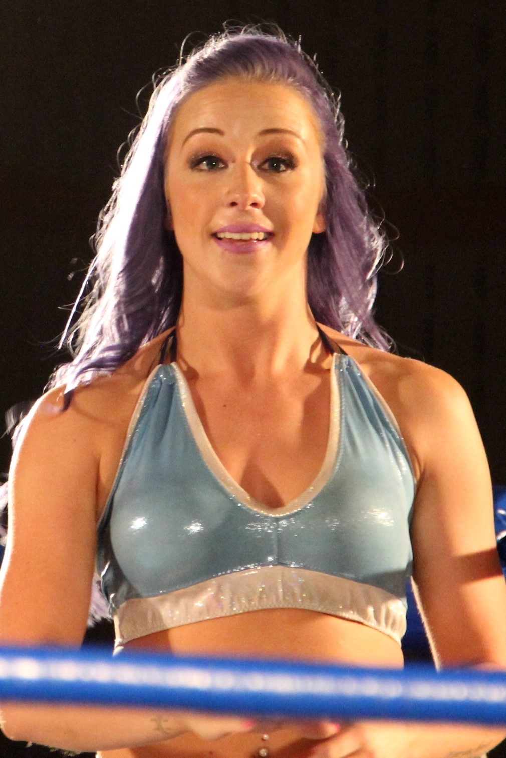 Princess KimberLee at Chikara's King of Trios in September 2015.